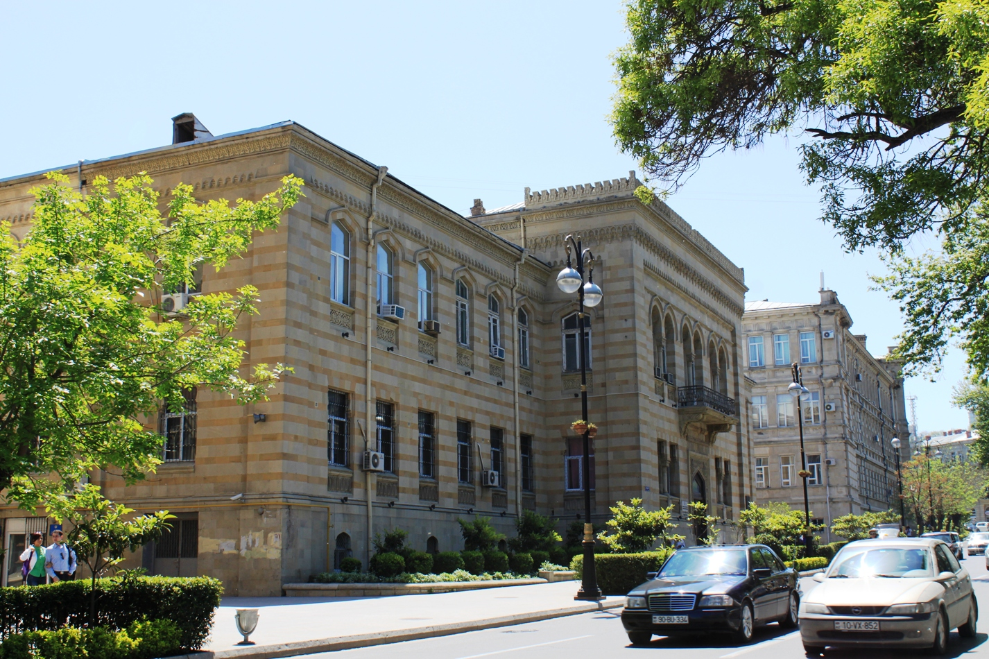 Street in baku city